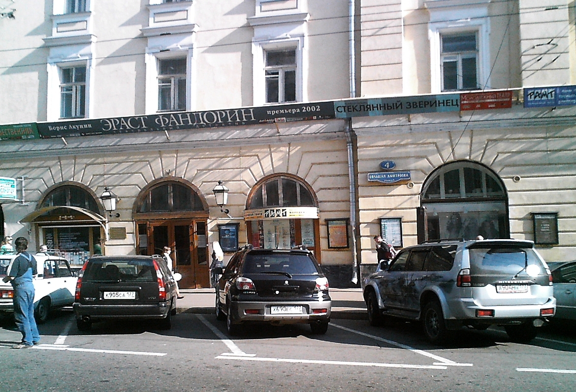 RAMT Theatre Moscow